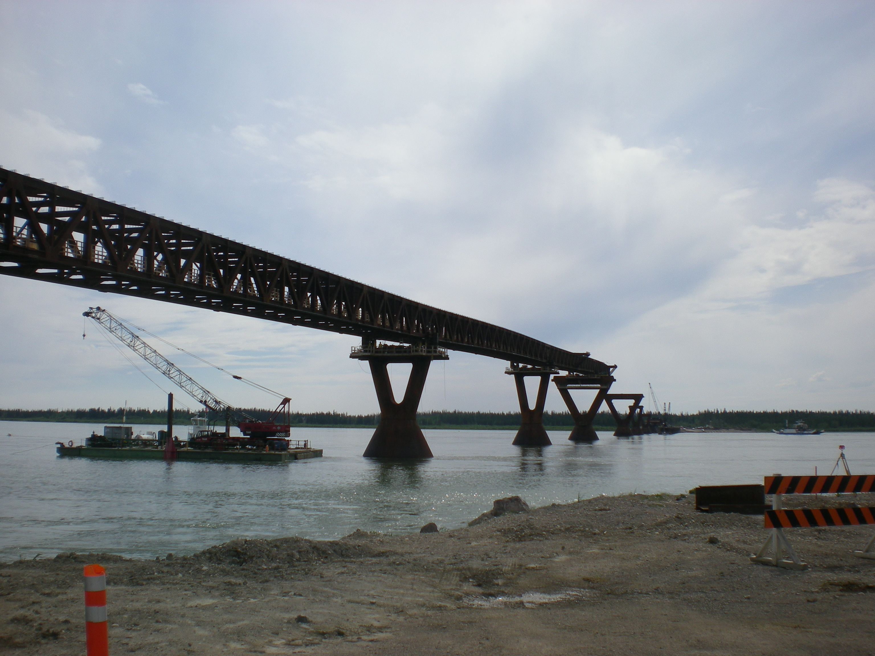 The Deh Cho bridge taken from the ferry landing